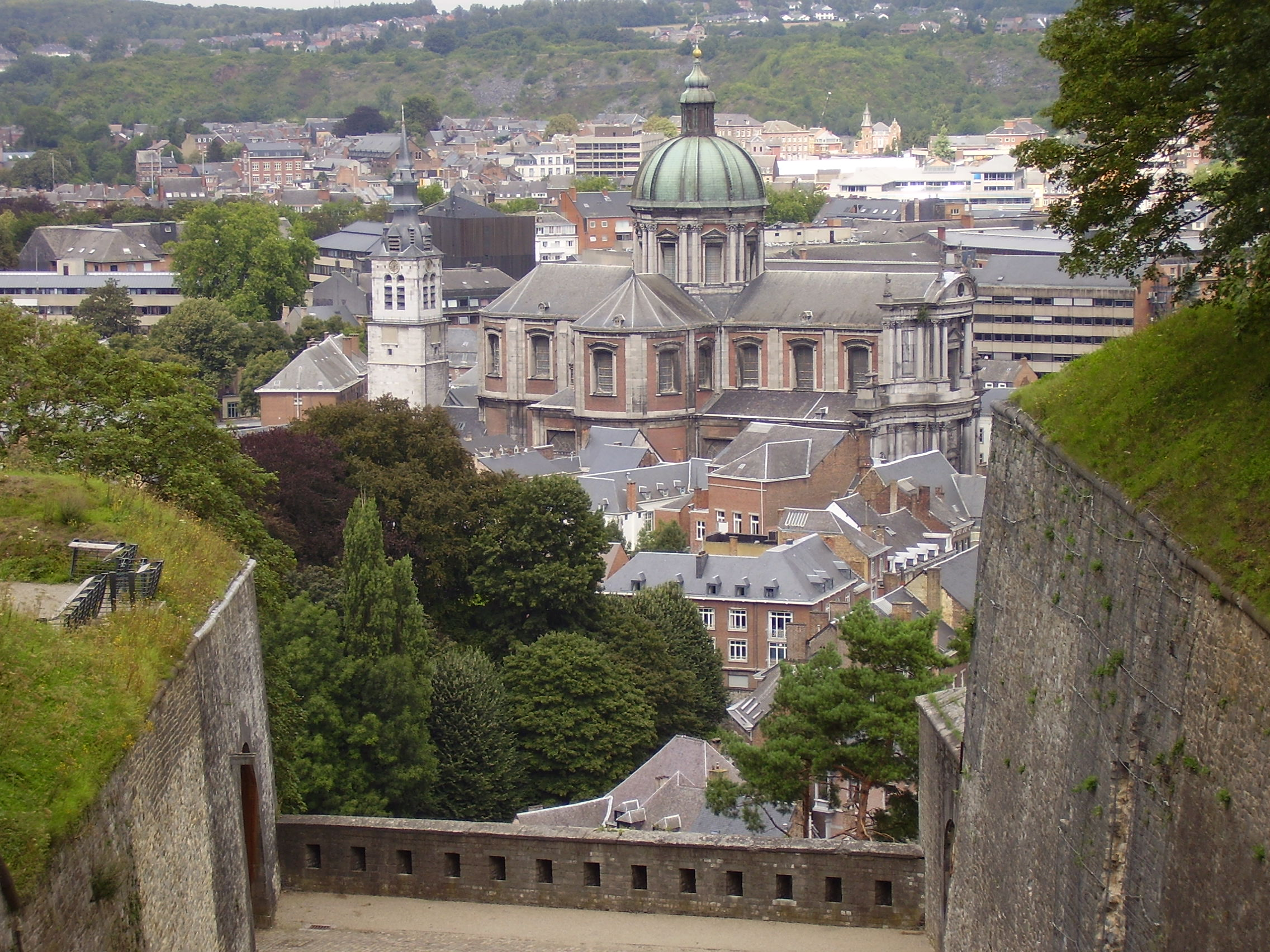 Namur (city), Belgium